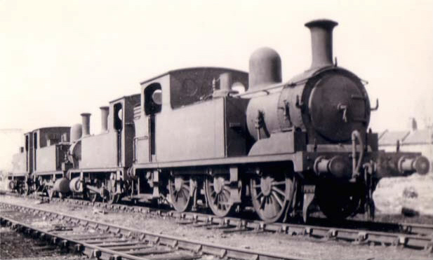 Railway Tank Engine. Photographed at Eastleigh 1949. Adams 0-6-0T Class G6. Built 1894-1900.